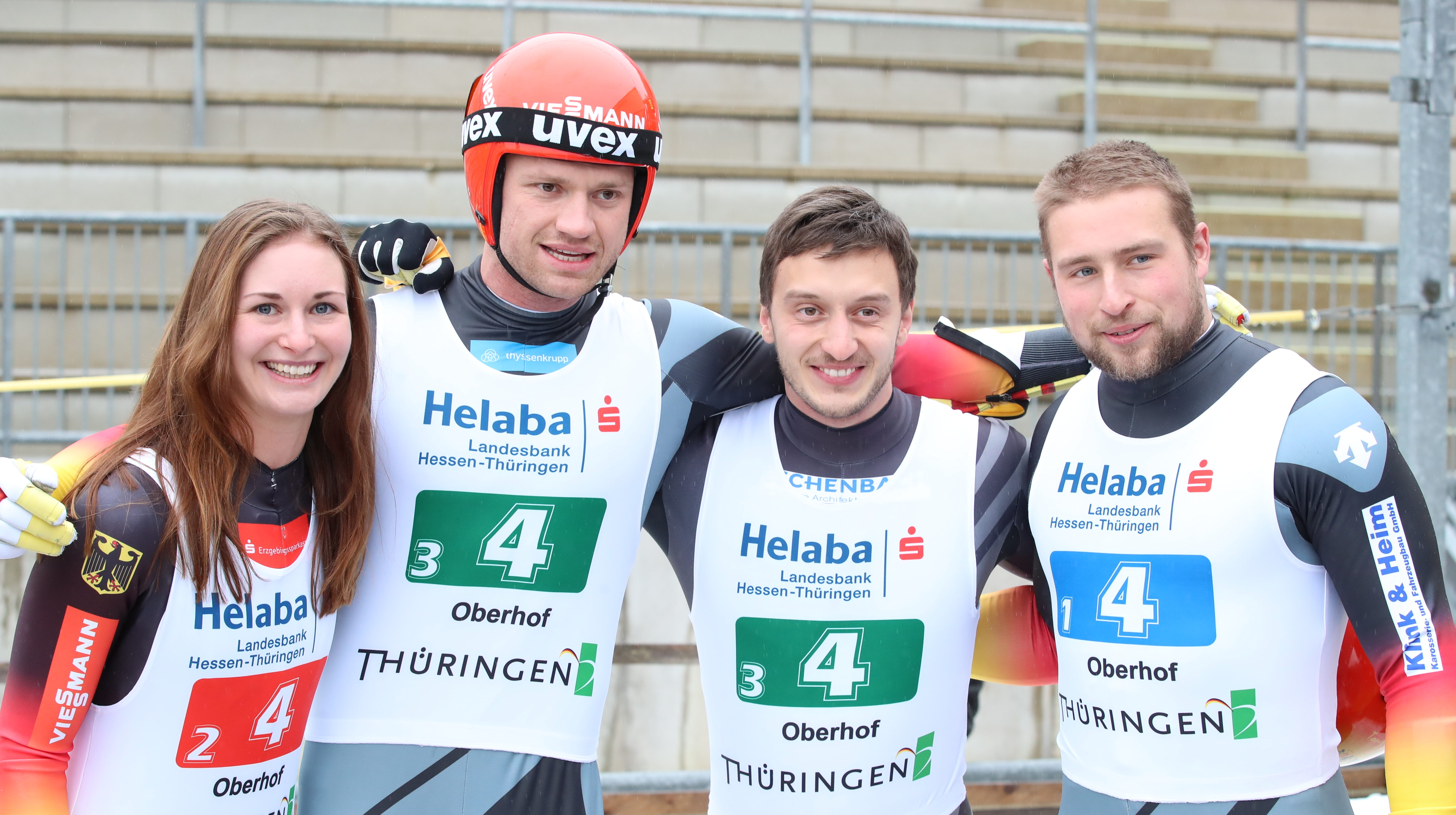 Team Relay race at the German Luge Championships 2019 in Oberhof